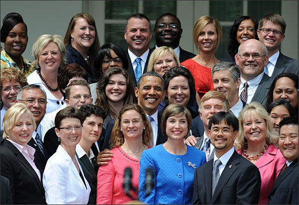 President Obama with a group of teachers at Teachers' Day, May 3rd 2011